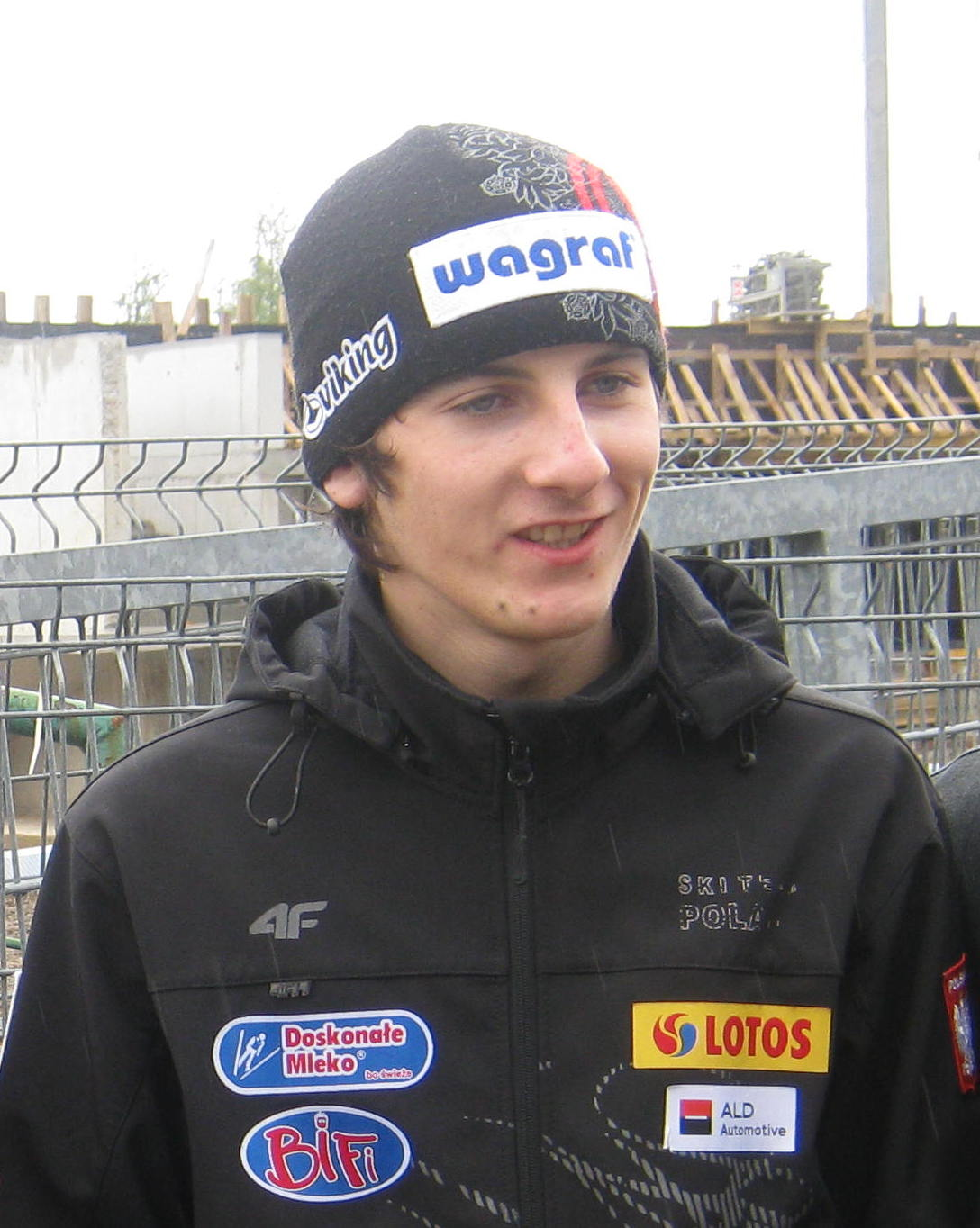 Grzegorz Miętus at 4th "Solidarność" Cup in Zakopane, Poland